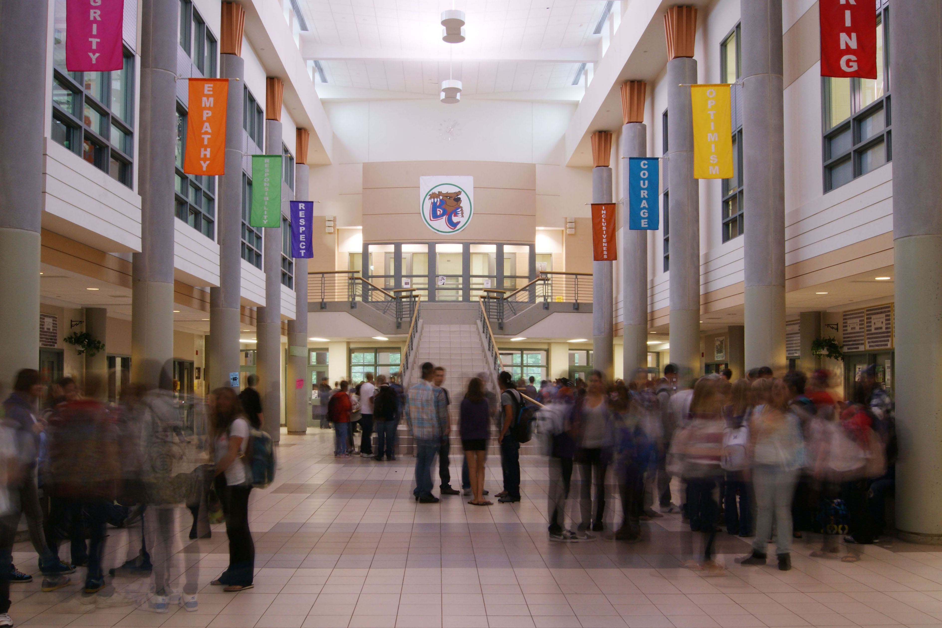 Interior view of the main forum of Bear Creek Secondary School.